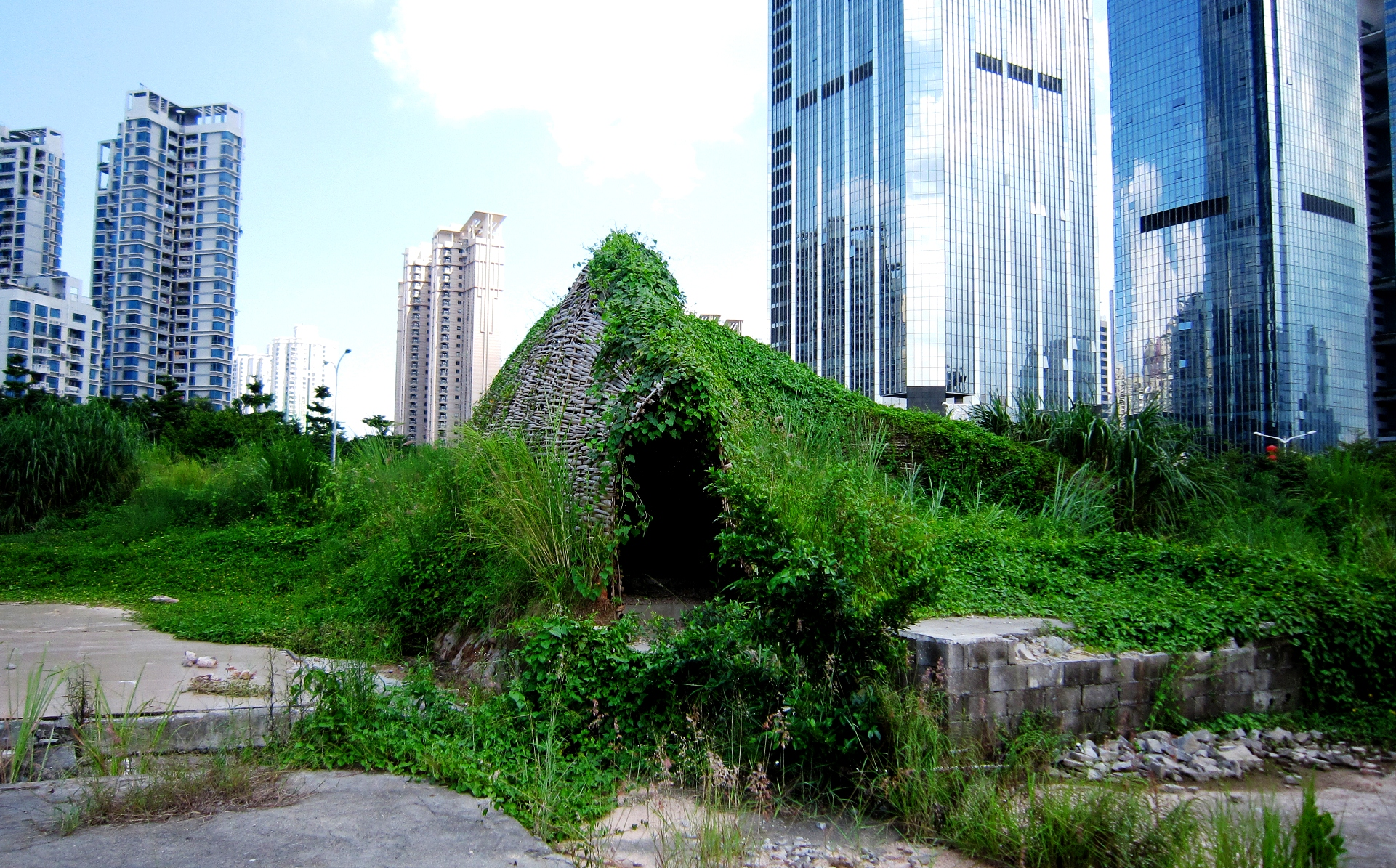 Bug Dome by WEAK! (Marco Casagrande, Roan Ching-Yueh, Hsieh Ying-Chun) in Shenzhen. An un-official community center for illegal workers.